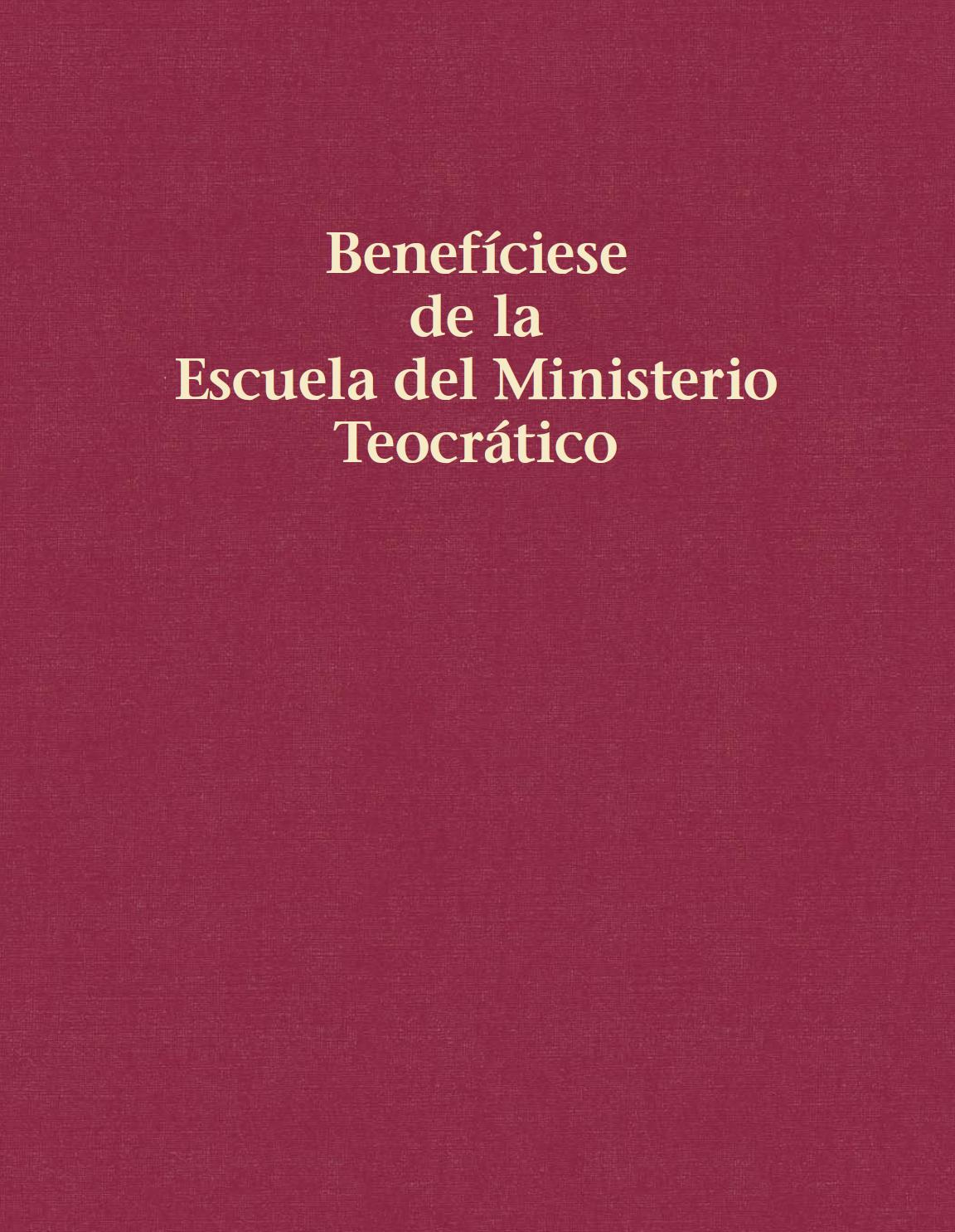 Manual de estudio de la Escuela del Ministerio Teocrático